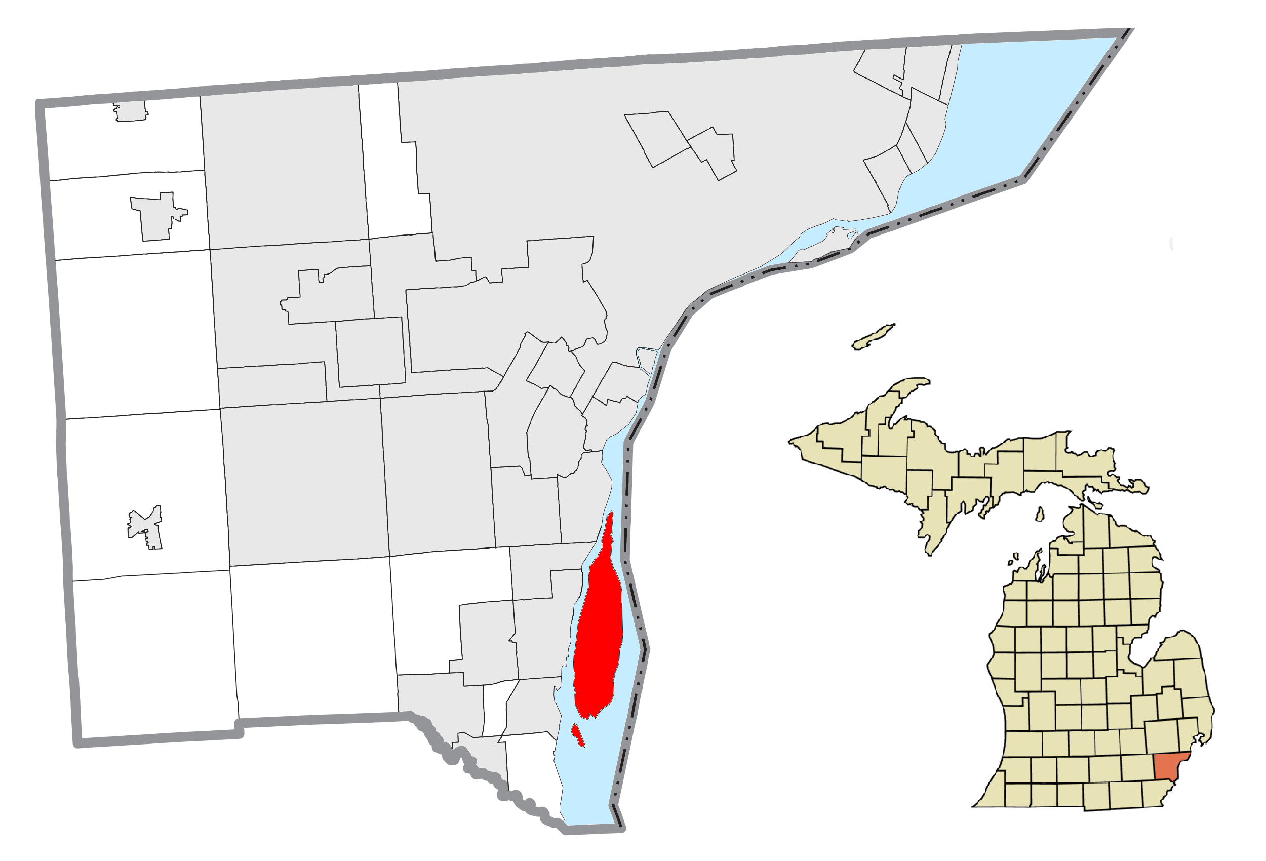 Grosse Ile Township, MI